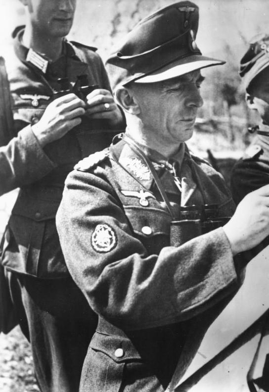 Generalleutnant Walter Stettner Ritter von Grabenhofen of the 1st German Mountain Division during anti-partisan operations in Montenegro in June 1943.